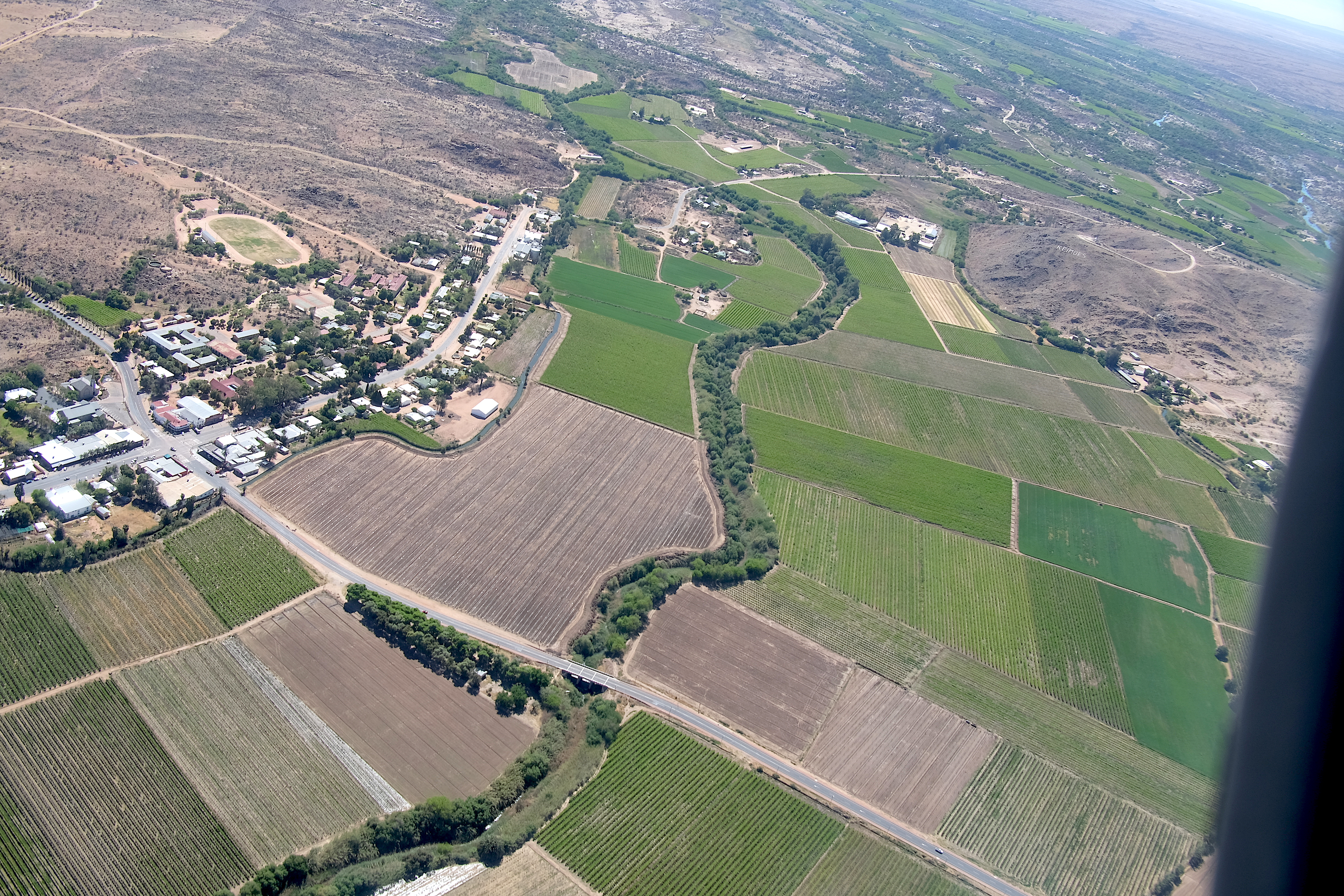 Keimoes aerial view (2016)